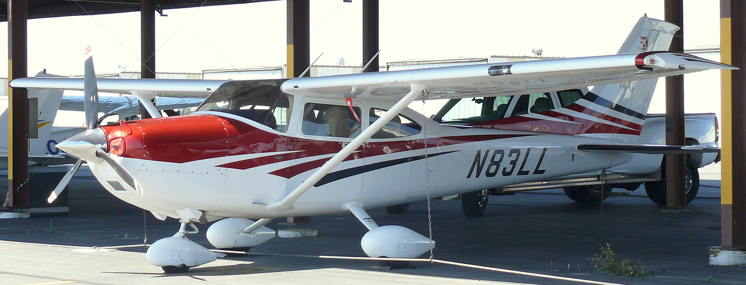 Cessna T182T At Centennial